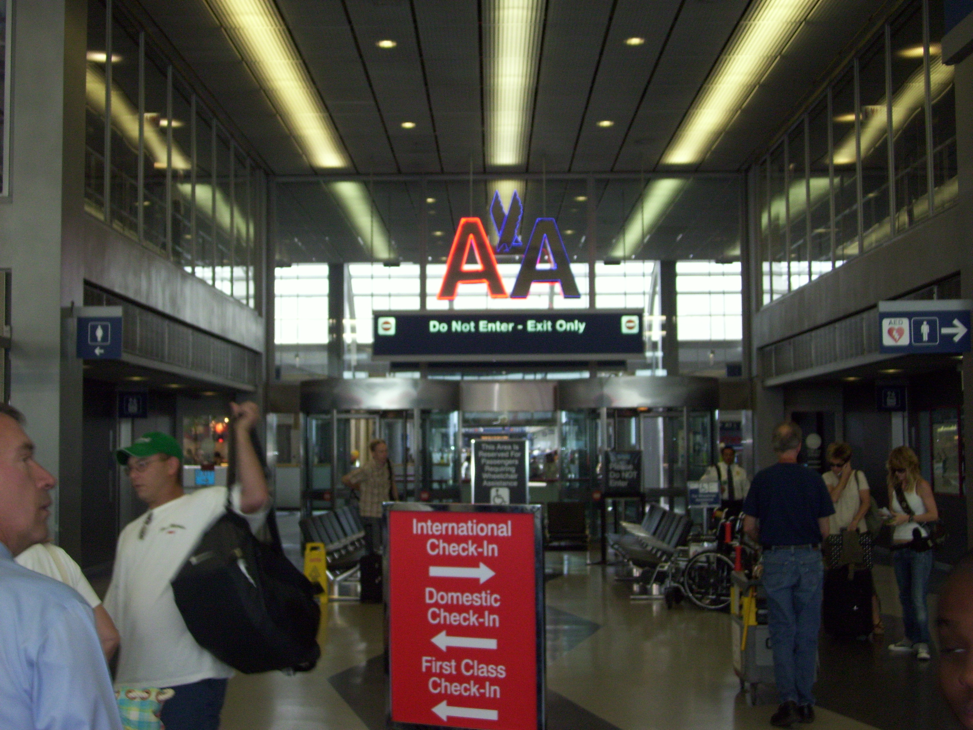 O'Hare_International_Airport - Terminal 3 is home to American Airlines' Chicago hub